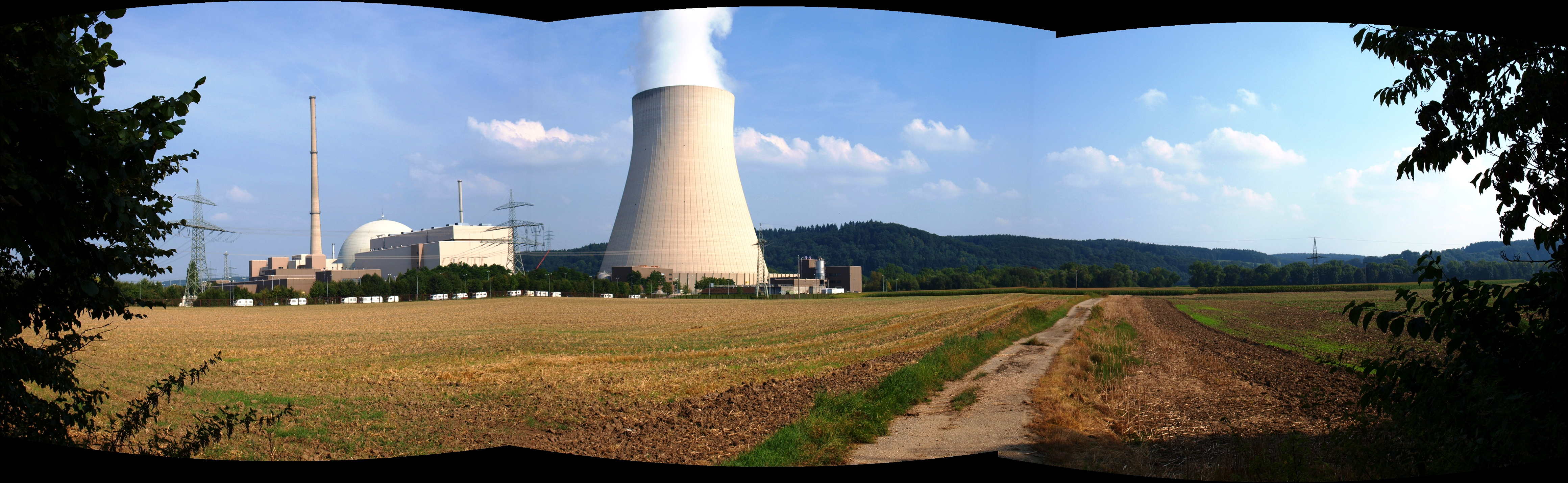 Panaorama of Isar Nuclear Power Plant